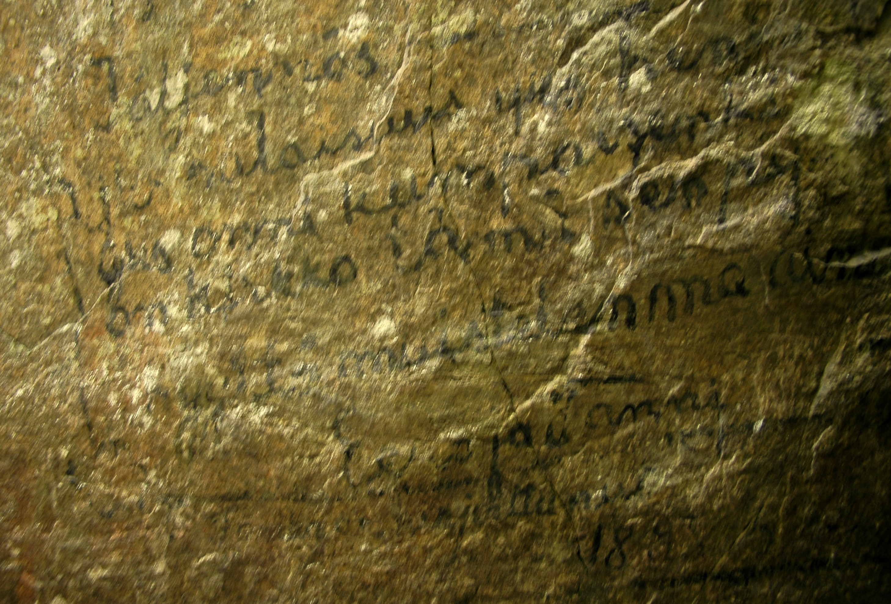 Poem by Eero Järnefelt written in the wall of the Pirunkirkko cave in Koli, Finland.